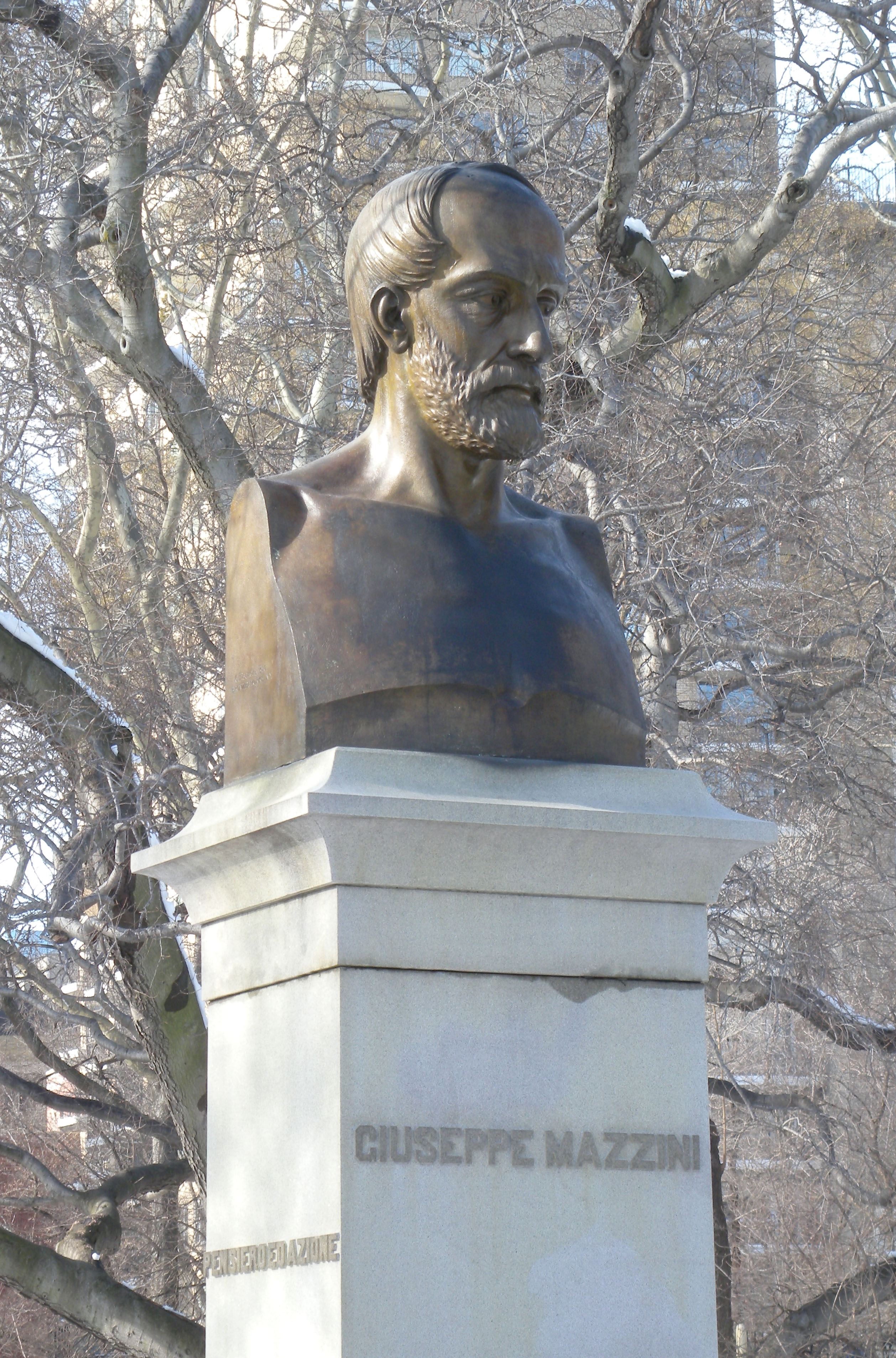 Looking northwest at bust of Mazzini on a sunny afternoon with snow on the ground.